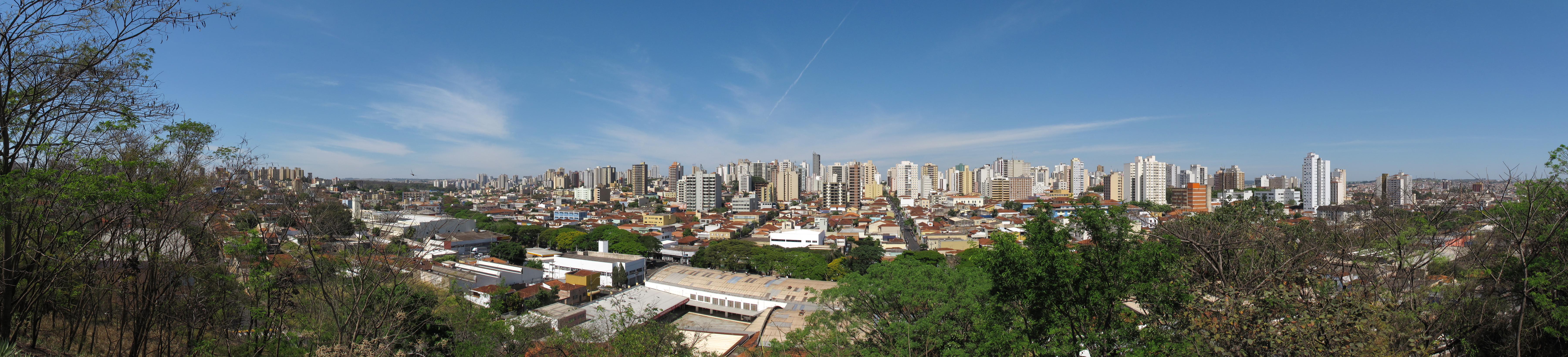 Panoramic view of Ribeirào Preto from viewpoint in zoo.